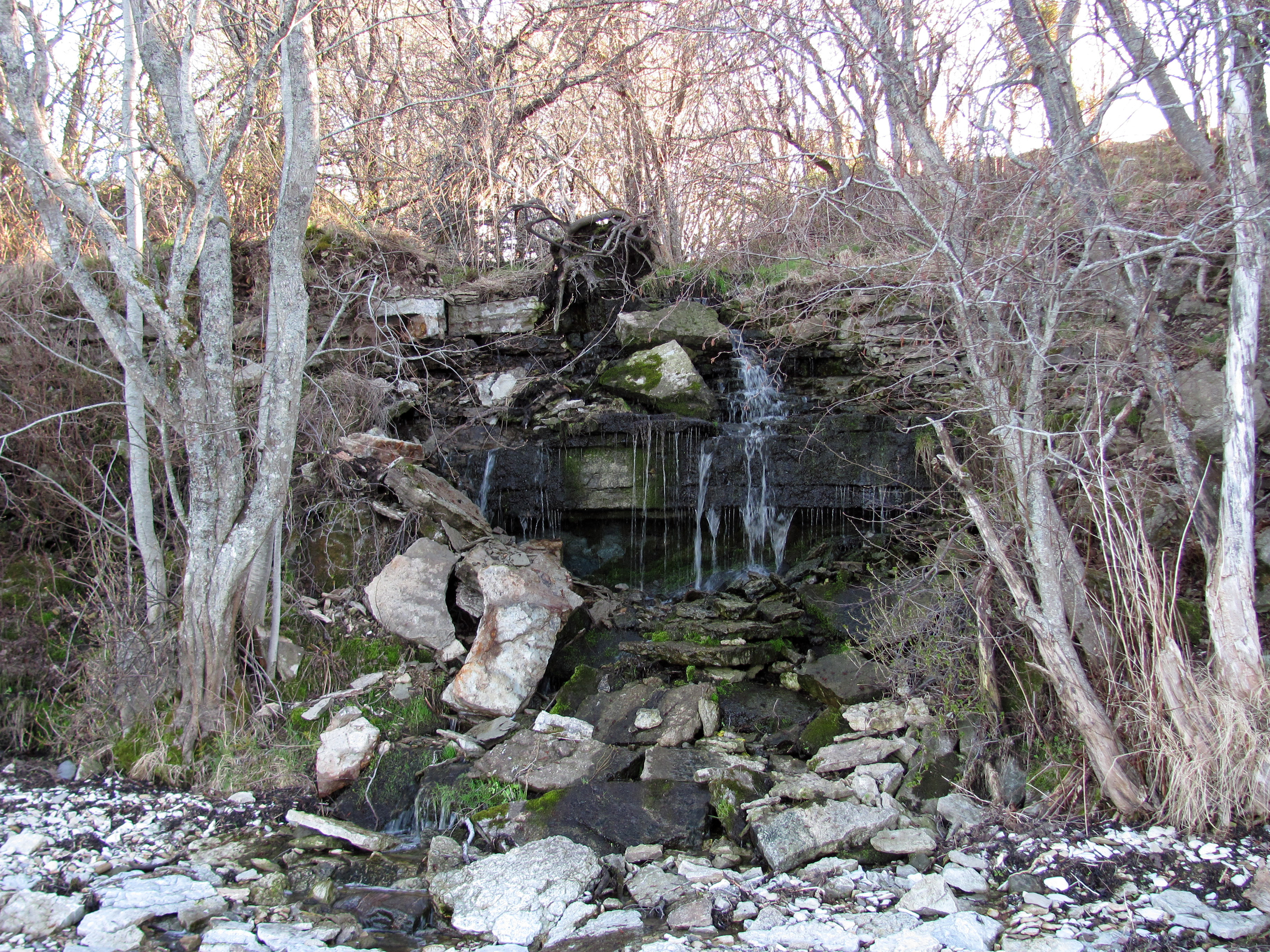 Kersalu waterfall, Pakri peninsula, Estonia. View from the beach.